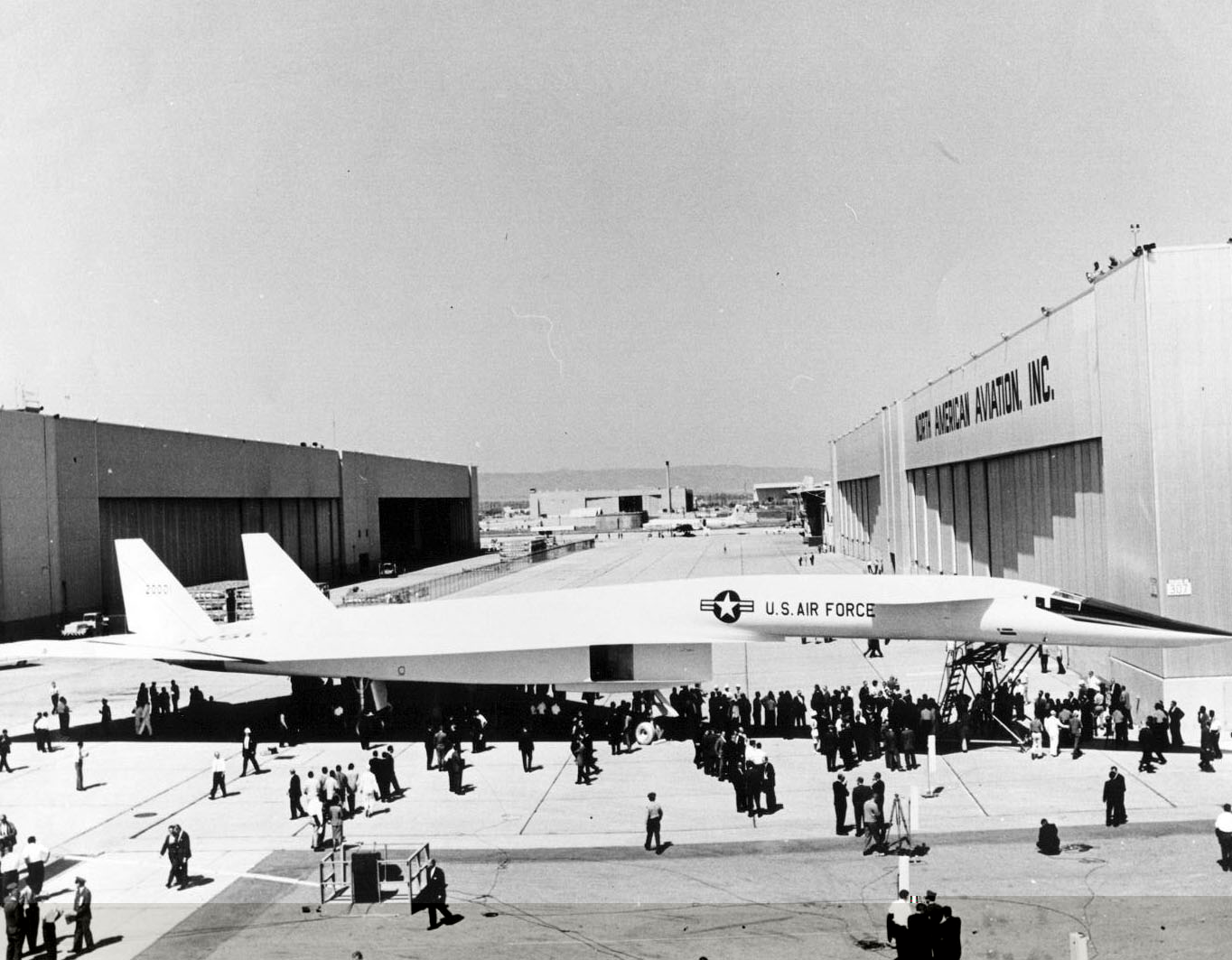 North American XB-70A Valkyrie side view at the rollout at the North American Aviation Inc facilities